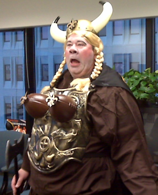 John "Spud" McConnell sings for a Saints Super Bowl Victory.